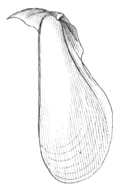 Drawing of internal view of the one jaw of Fiona pinnata. Cuting edge is on the top left. There is visible the point, where the jaws are articlated in the top centre. Expanded lobe on the dorsal margin for muscular attachment is on the top right.